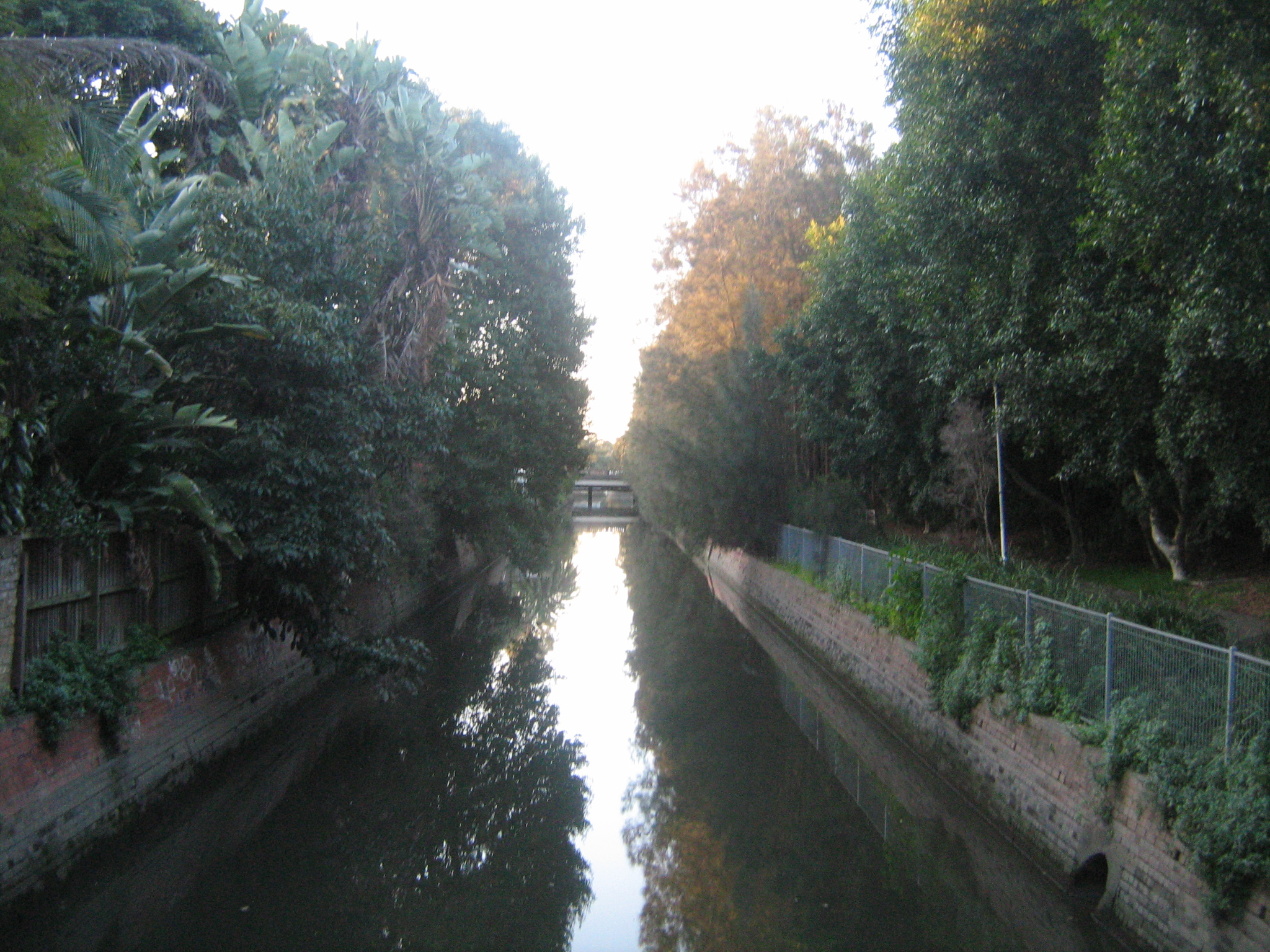 View of Hawthorne Canal looking downstream at high tide from the footbridge near the intersection of Hawthorne Parade and Lord Street, Haberfield, NSW, Australia. The Marion Street bridge can be seen in the distance.